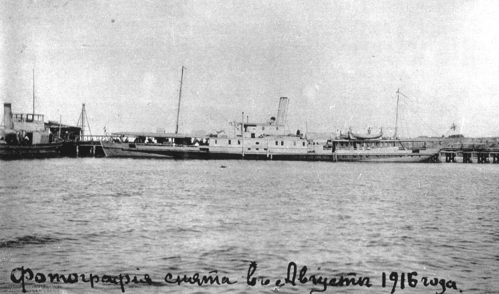 Minesweeper T-260, later gunboat of the white Azov flotilla K-3 «Salgir».